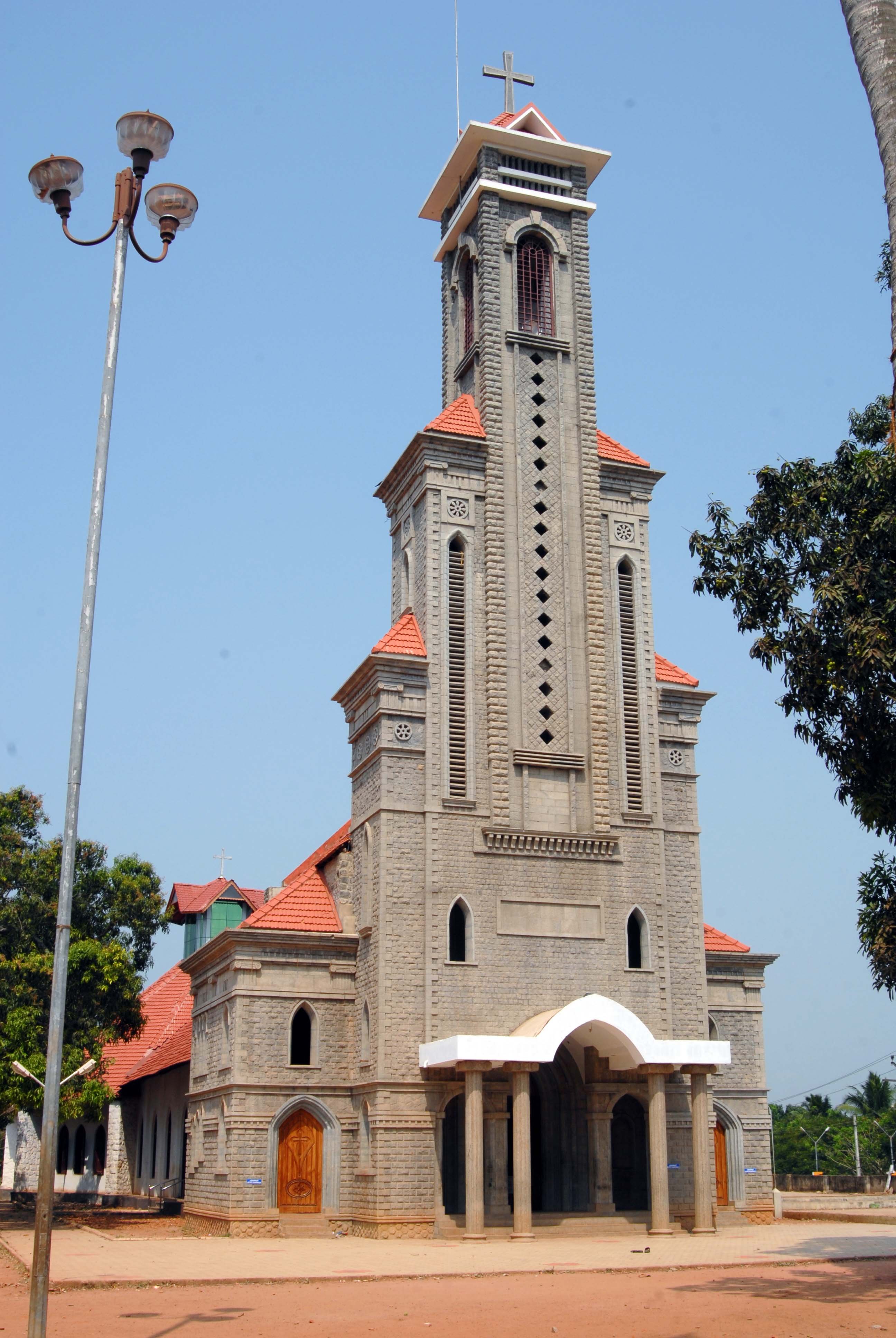 One of the Biggest CSI Churches in Kerala.